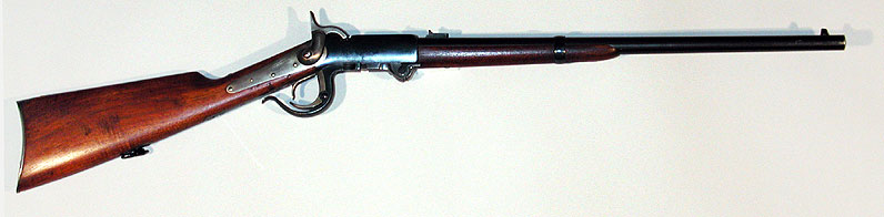 Photo of a Burnside carbine.